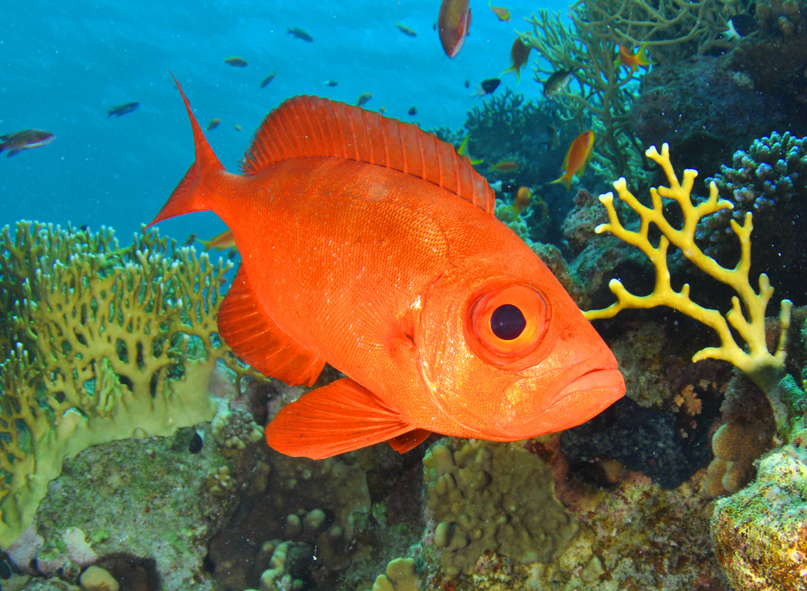 Bigeyes